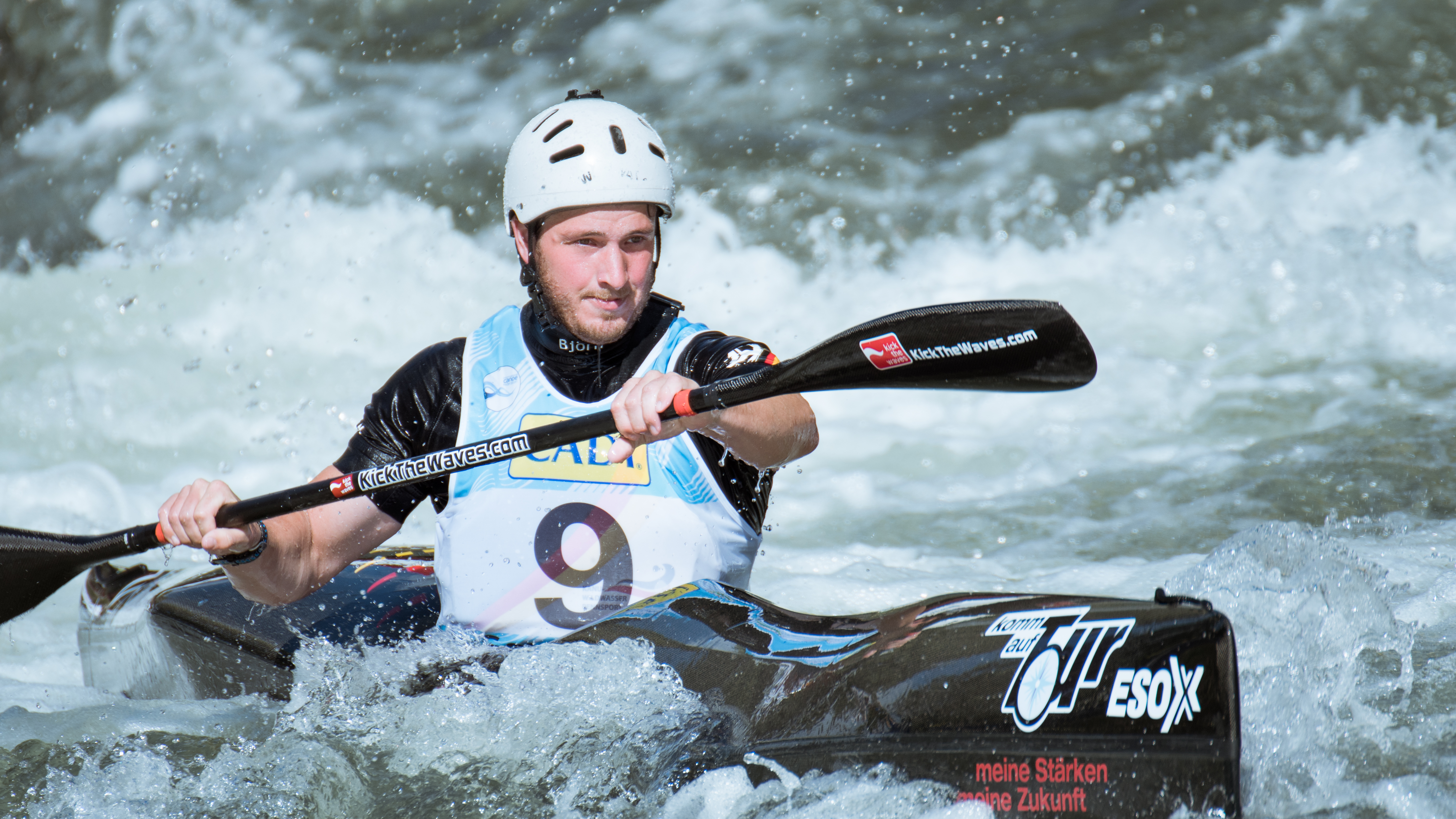 Björn Beerschwenger during the 2019 Canoe Wildwater World Championships in La Seu d'Urgell, Spain.